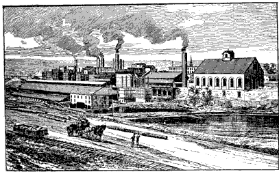 blast furnaces, Lackawanna Coal and Iron Co. From East Side of Dam, Looking West 1879